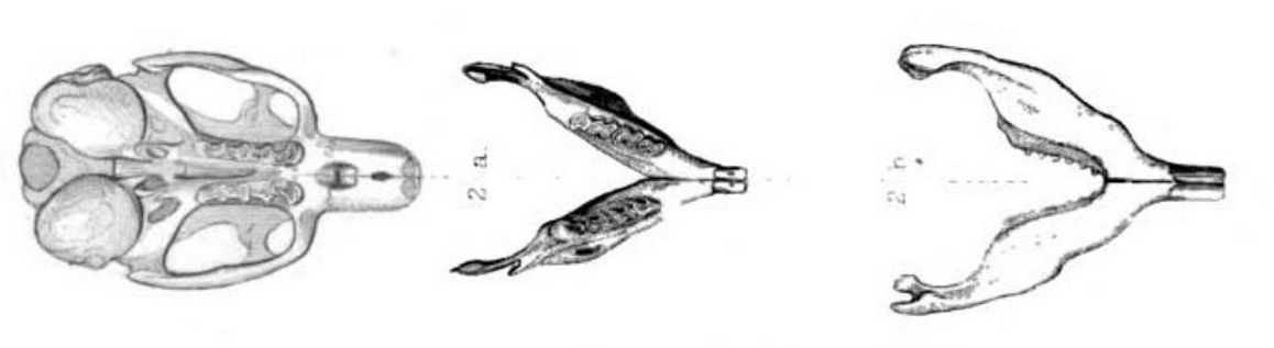 The skull of Octodon degus by Waterhouse